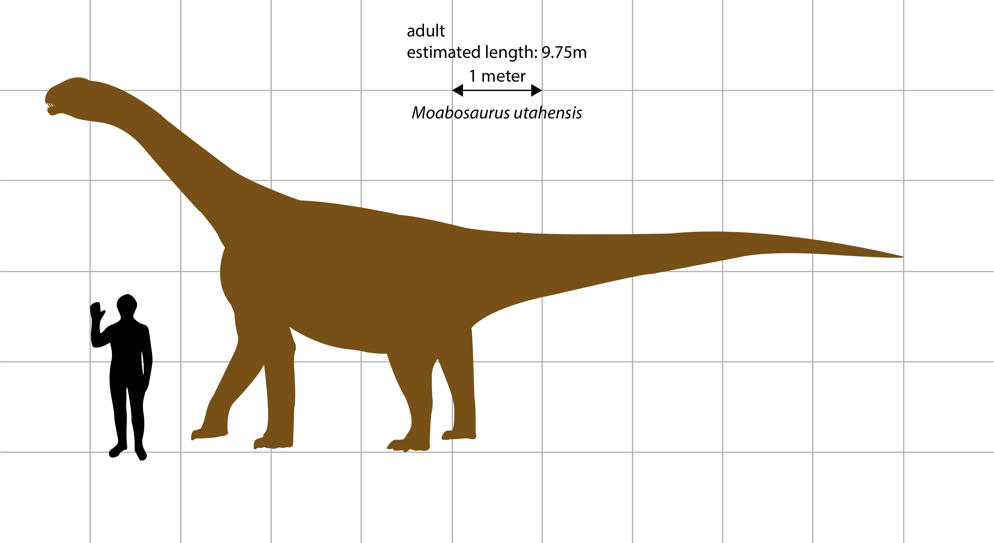 Moabosaurus in comparison to an average human adult male